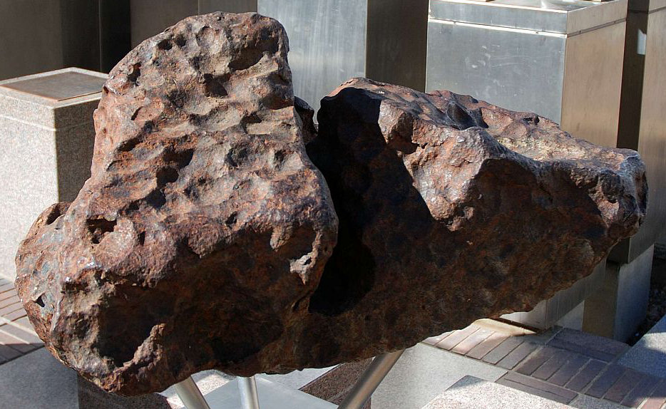 One of the Gibeon meteorites on permanent display in Post Street Mall, Windhoek.